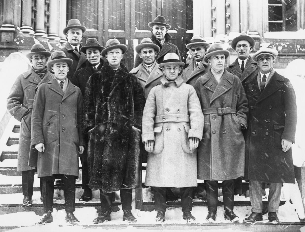 Players of the Calgary Tigers hockey club in Montreal, Quebec for the 1924 Stanley Cup Finals. Players listed left to right: Back row: Lloyd Turner (manager), Rosie Helmer (trainer) Middle row: Bobby Benson, Bernie Morris, Rusty Crawford, Charlie Reid, Herb Gardiner Front row: Ernie Anderson, Red Dutton, Cully Wilson, Harry Oliver, Eddie Oatman